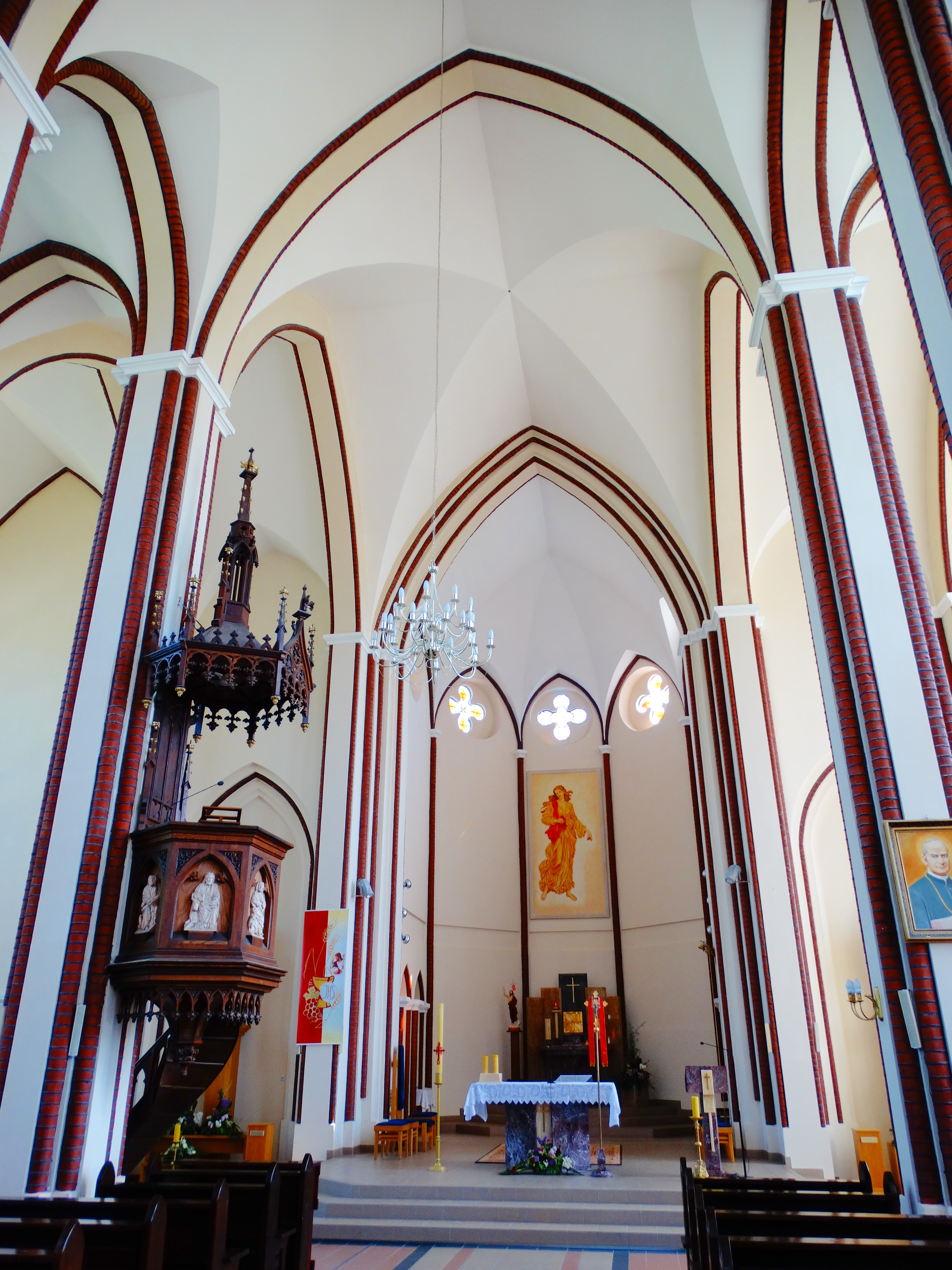 Sasnava church, interior, Marijampolė Municipality, Lithuania